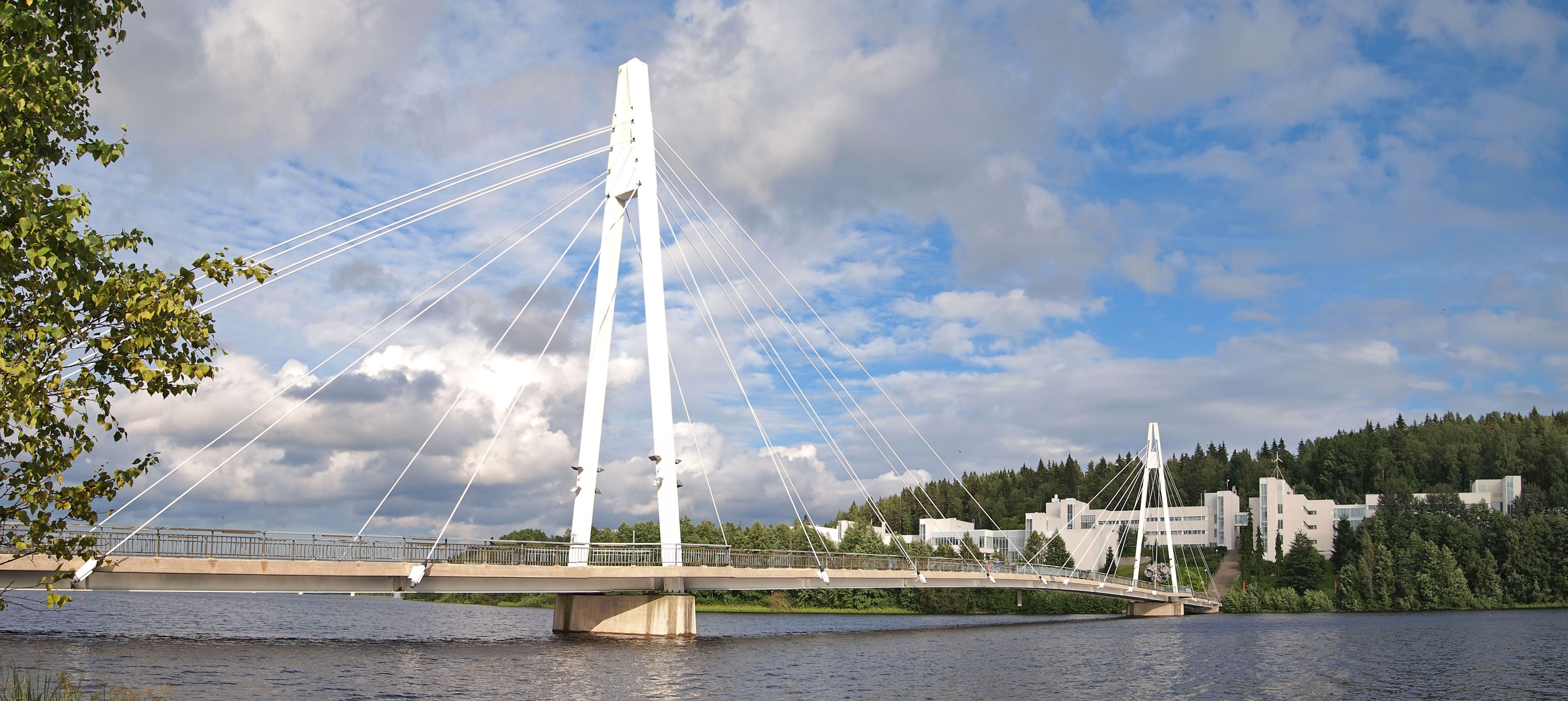 View from Mattilanniemi beach towards the Ylistö Bridge and Ylistö campus.